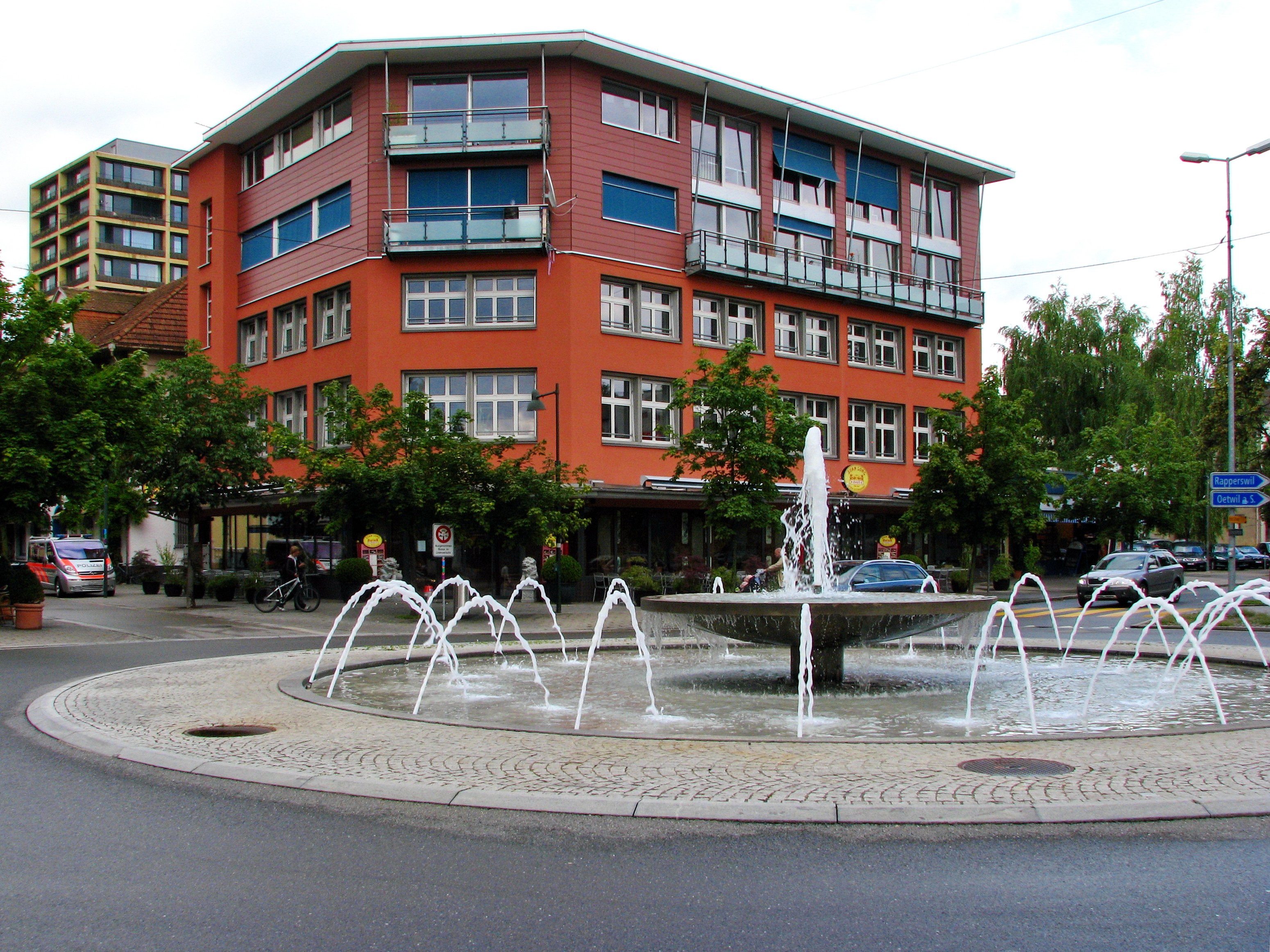 Shopping mall in the inner city of Uster.